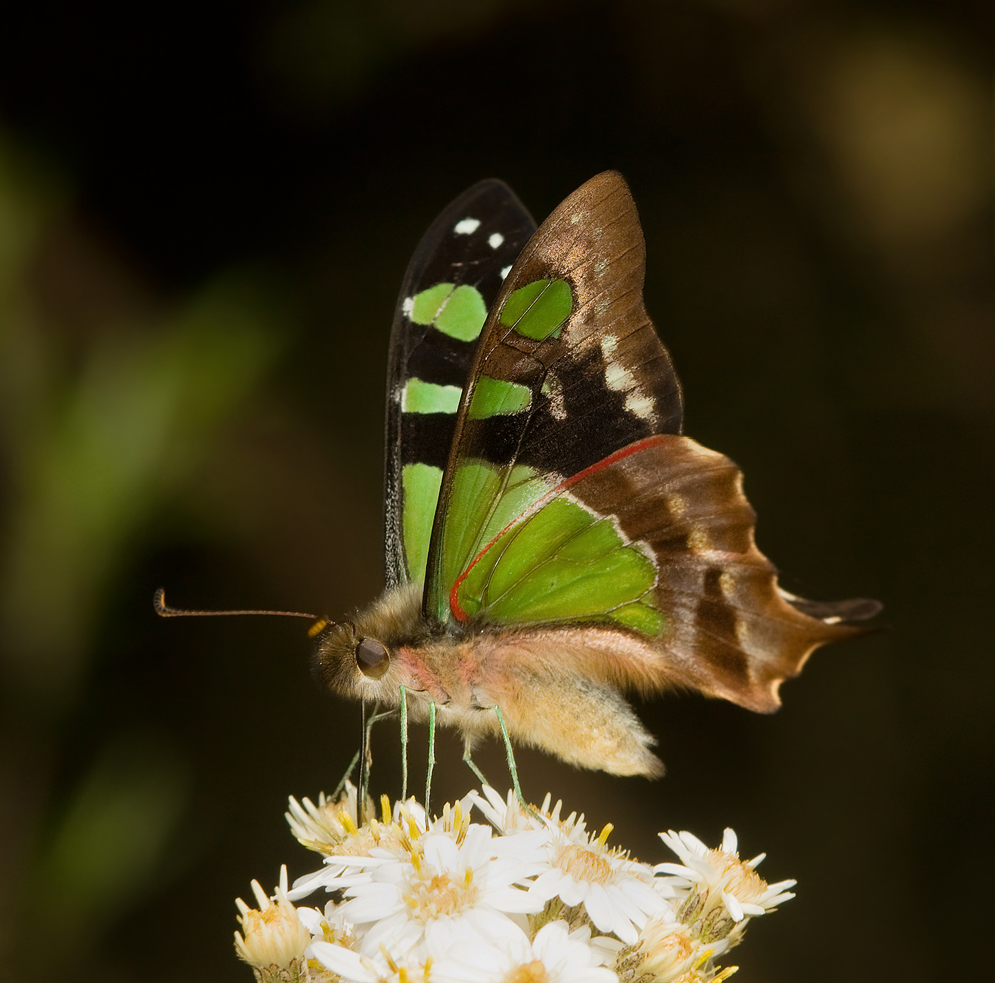 Macleay's Swallowtail (Graphium macleayanus), Franklin - Gordon Wild Rivers National Park, Tasmania, Australia